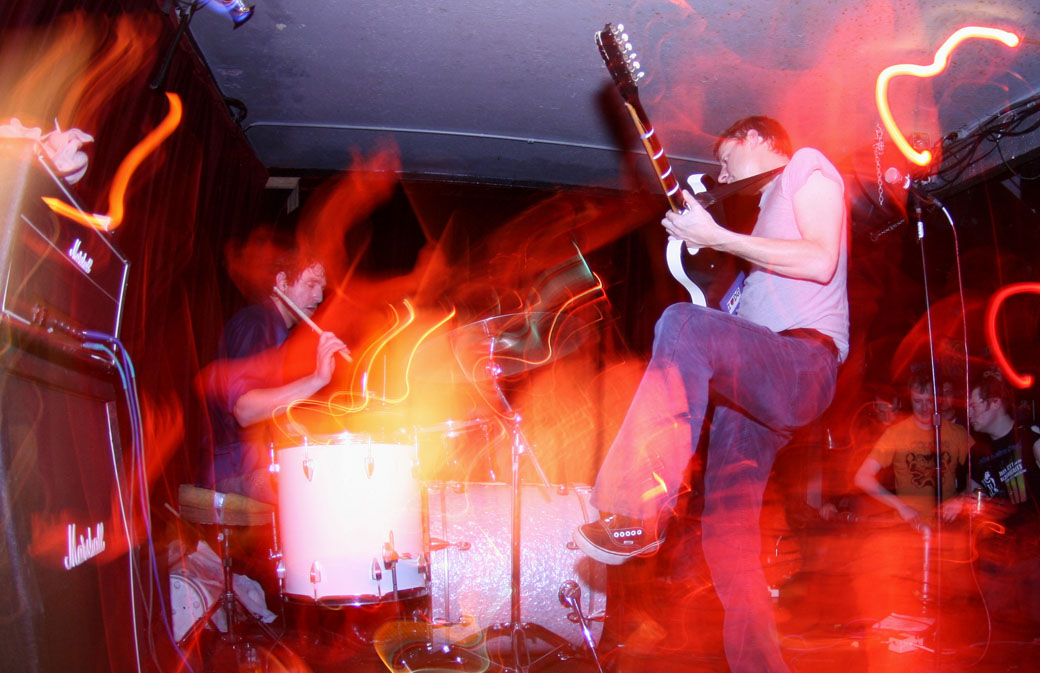 The Intelligence